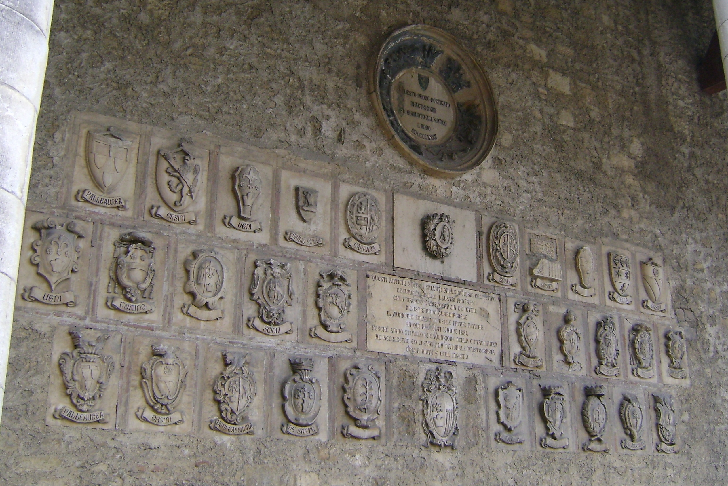 The coats of arms of the major families of Guardiagrele at the church of Santa Maria Maggiore, in the province of Chieti, Abruzzo